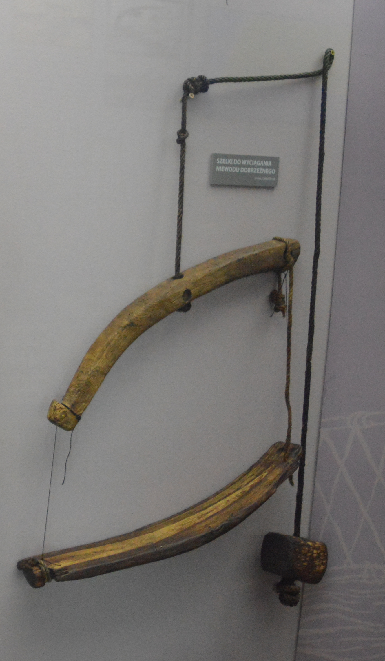 Yoke for use by human for towing seine fishing net. Exhibit in Museum of Fishery in Hel, Poland.